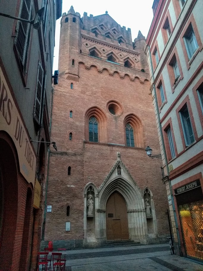 Notre-Dame-du Taur, Toulouse, 2019